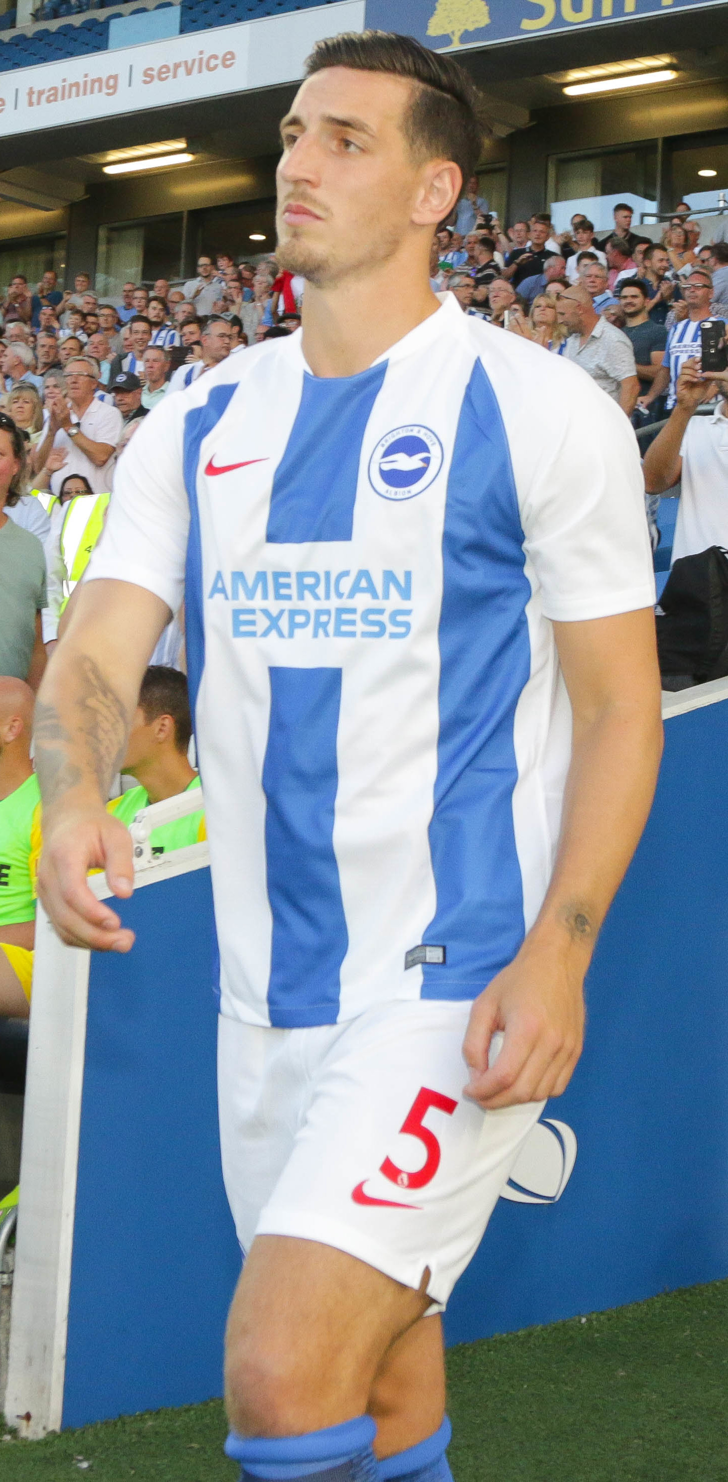 BHA v FC Nantes pre season 03 08 2018-322.jpg